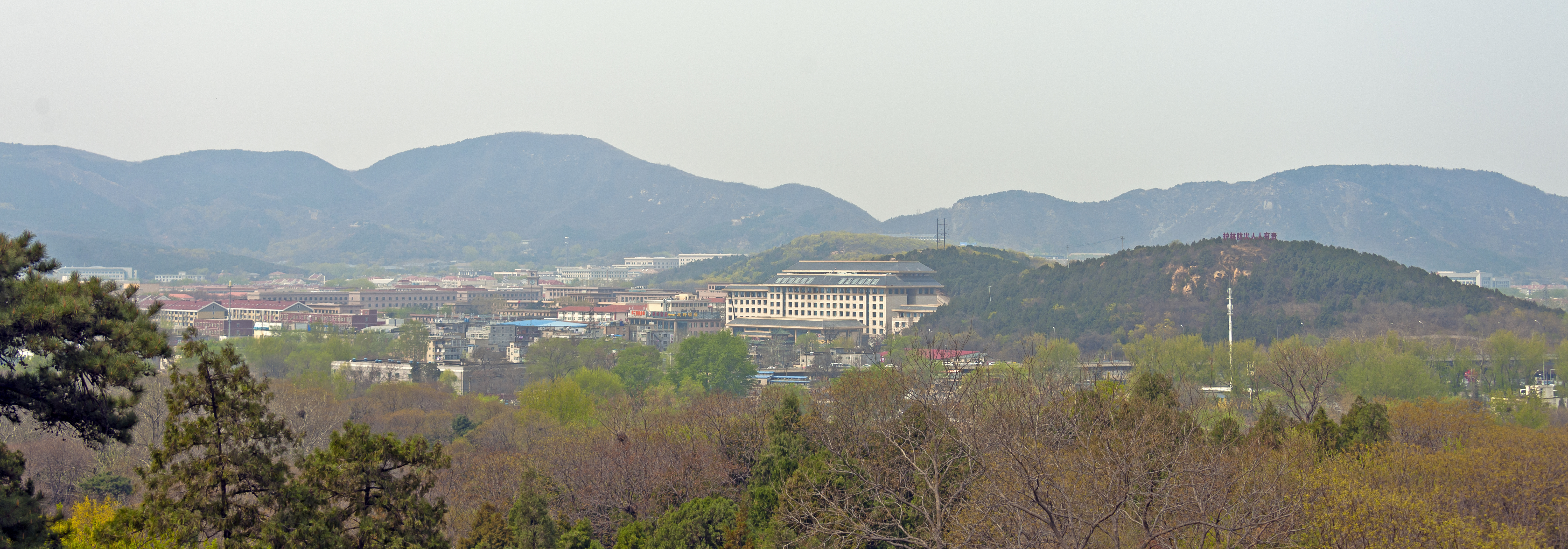 View over Qinglongqiao Subdistrict from the summit of Longevity Hill in the Summer Palace, Beijing